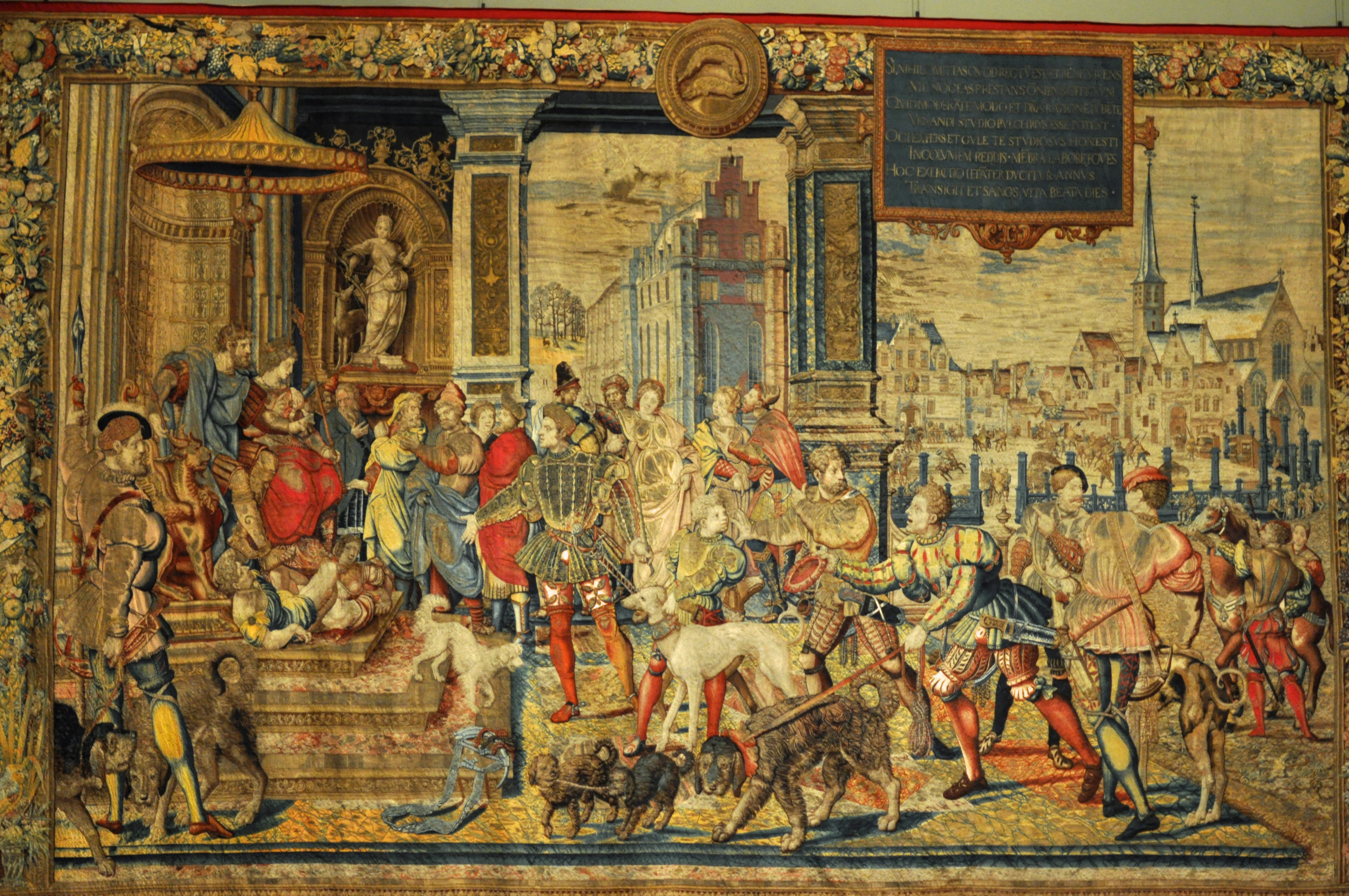 “February” is an allegorical tribute to the hunt: to the left in a niche is a statue of Diana, the goddess of hunting, with her greyhound. Below her are the fictional heroes of a fifteenth century book on hunting, King Modus and Queen Ratio who trample Sloth and Gluttony, thus celebrating the moral virtues of hunting.